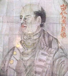 Portrait of Japanese adventurer Yamada Nagamasa (1590—1630). 17th century.